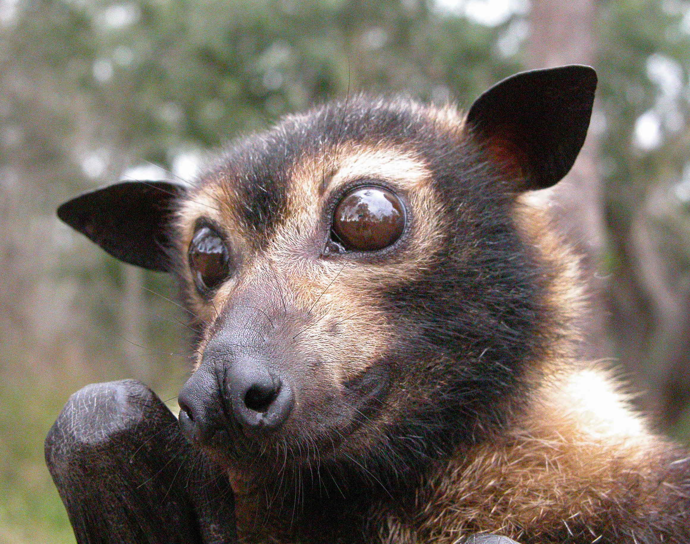 CSIRO scientists in Far North Queensland sought help from the public in attempting to locate tens of thousands of spectacled flying foxes that took flight in the aftermath of Cyclone Larry. They are investigating how flying foxes have responded to the habitat disturbance caused by the cyclone in March 2006. A large proportion of these animals relocate in winter and spring, but in 2006, they left up to three months earlier than usual, about a week after Cyclone Larry. The bats normally roost by day and feed at night, but after Cyclone Larry they were seen in flight and feeding in the afternoon daylight, which suggests that these typically nocturnal animals took greater risks to get sufficient food.